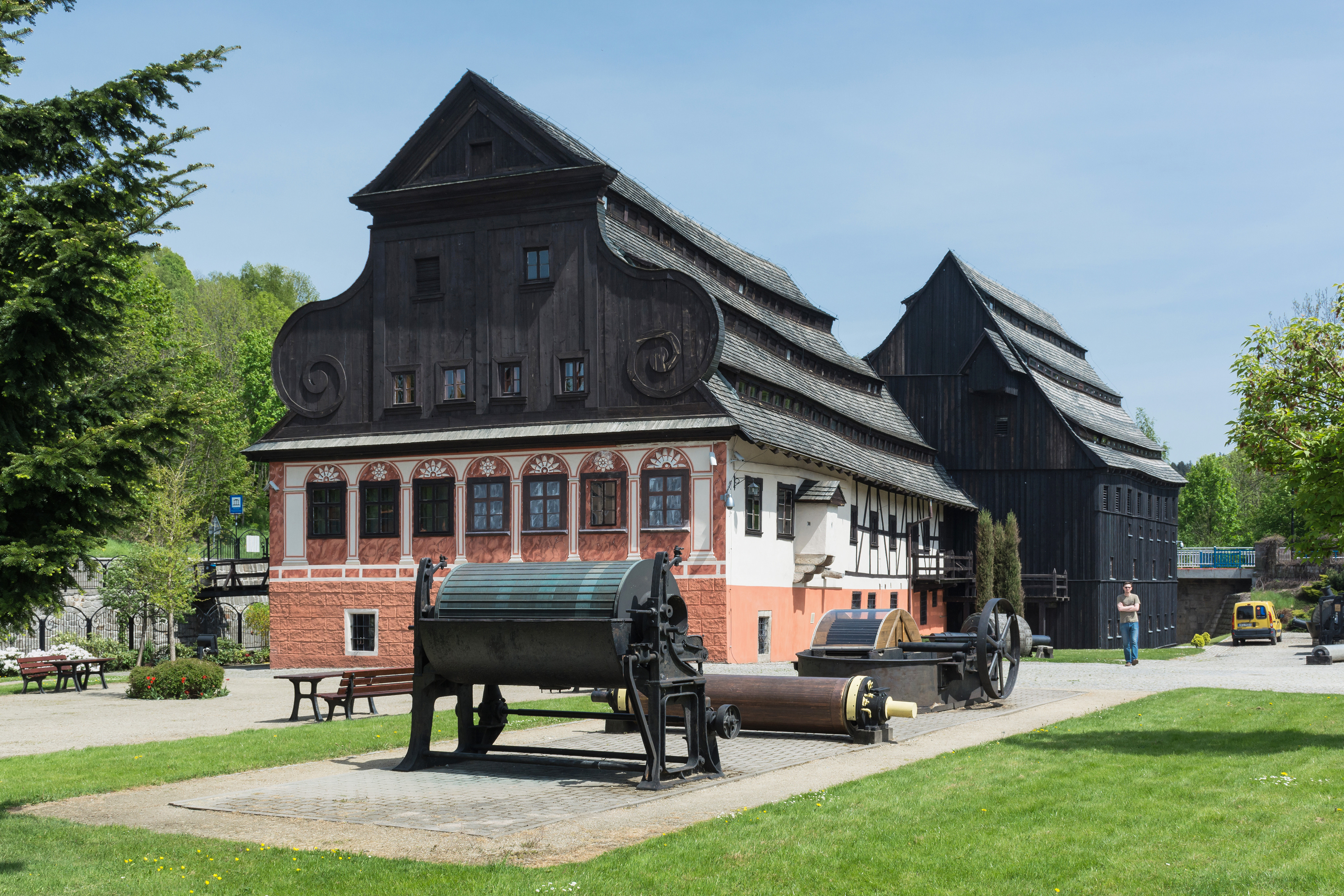 Museum of Papermaking in Duszniki-Zdrój